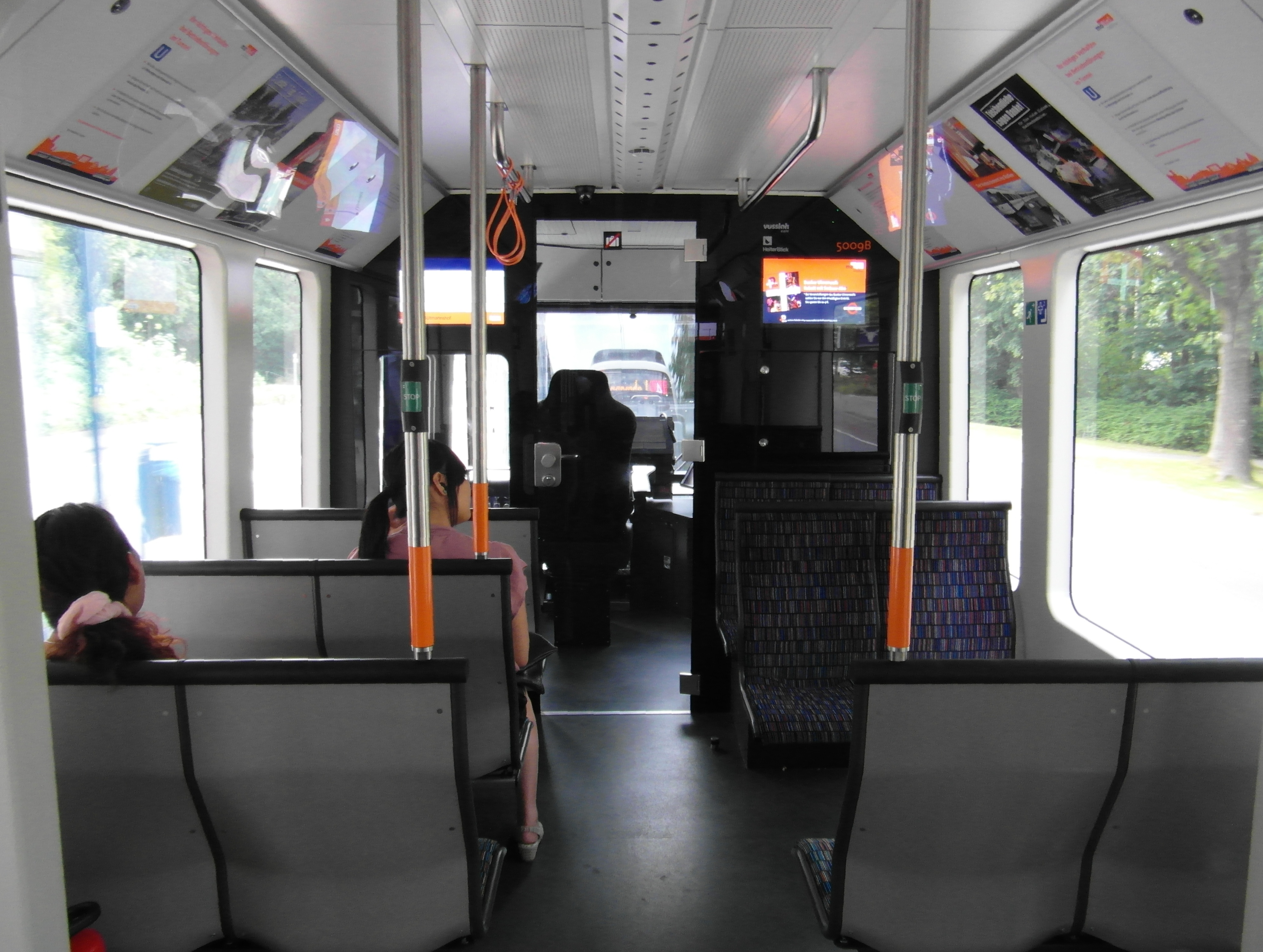 Details of a tram (type GTZ8-B) of Bielefeld's Stadtbahn, Bielefeld, Nordrhein-Westfahlen